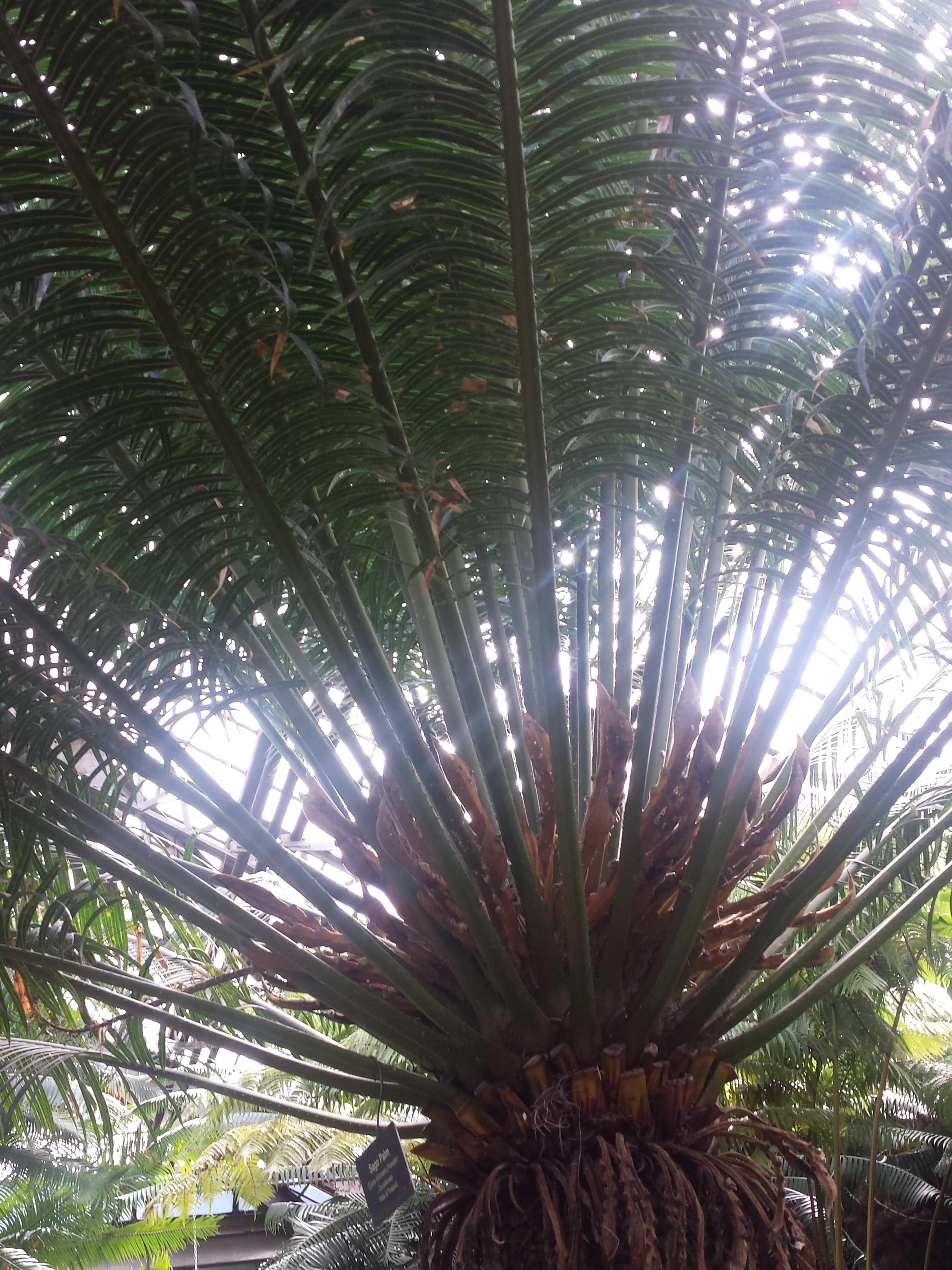 picture of the Palm House in Lincoln Park